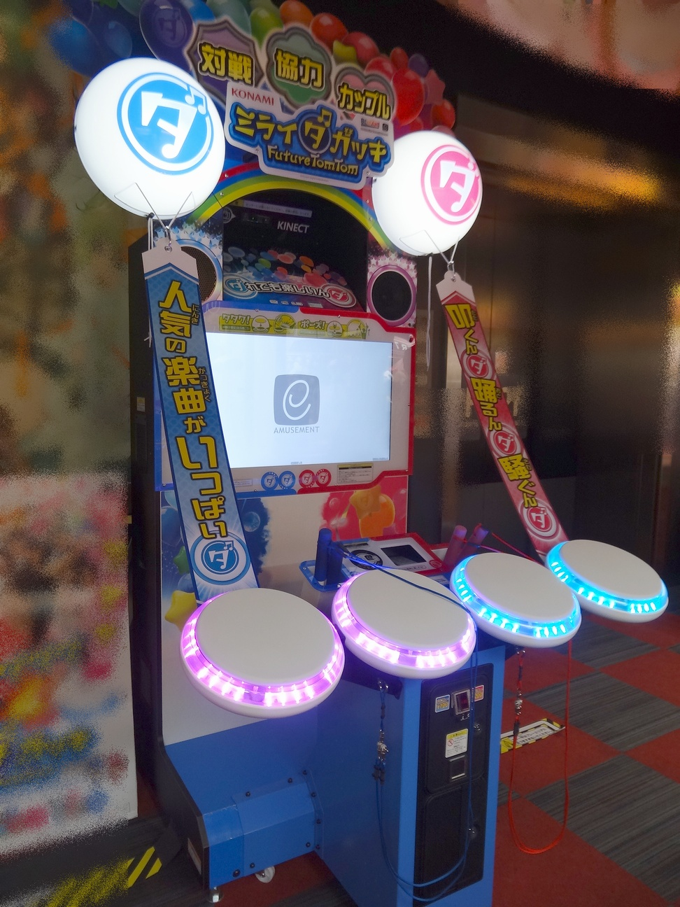 Future Tom Tom (Mirai Da-gakki).